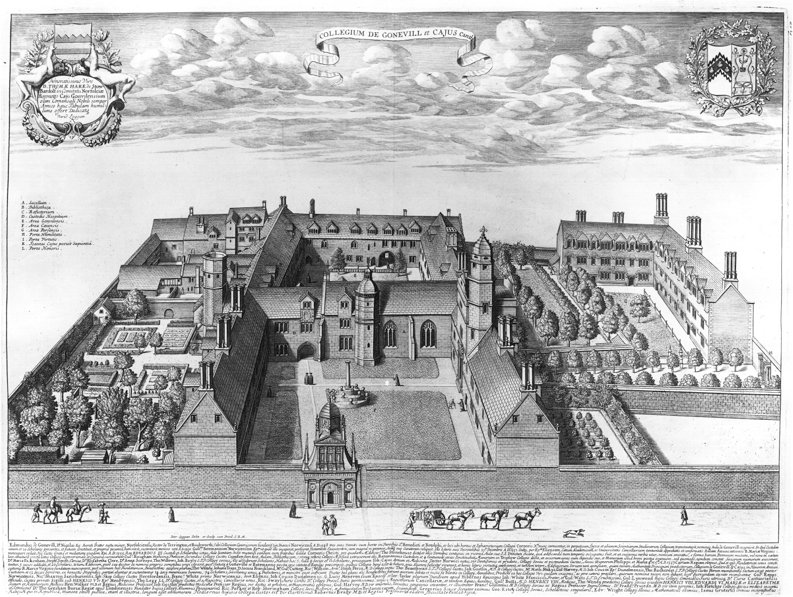 Bird's eye view of Gonville and Caius College, Cambridge by David Loggan, published 1690